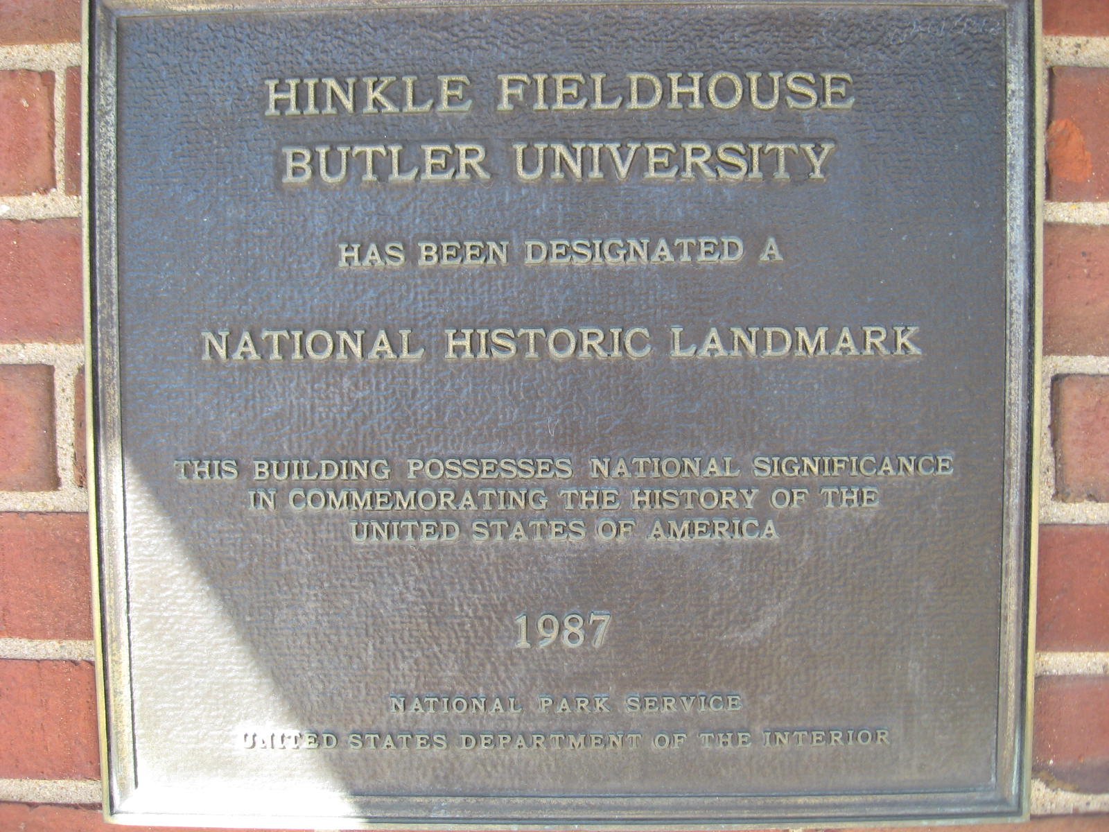 HinkleNHL